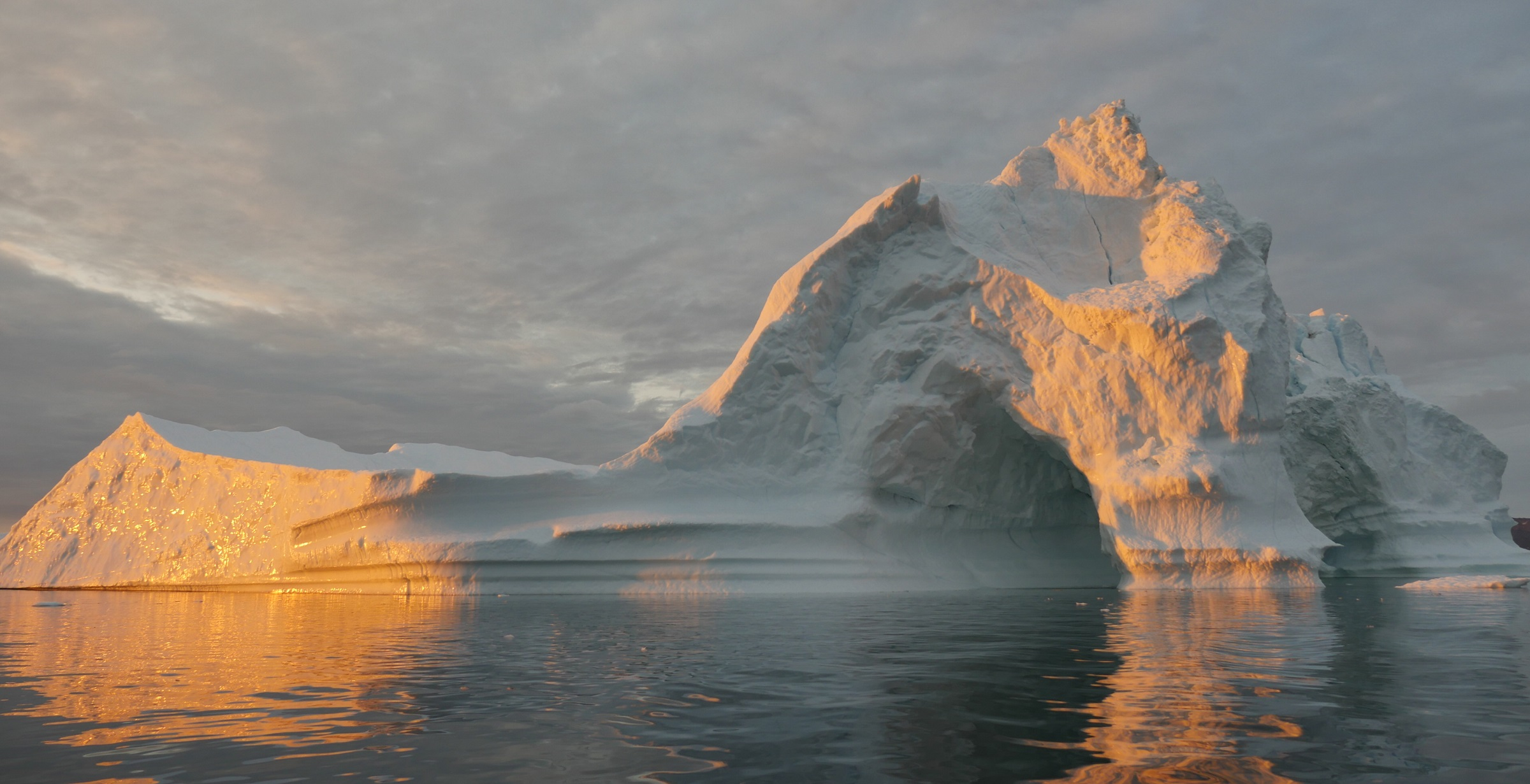 Sea level rise is a natural consequence of the warming of our planet. We know this from basic physics. When water heats up, it expands. So when the ocean warms, sea level rises. When ice is exposed to heat, it melts. And when ice on land melts and water runs into the ocean, sea level rises. For thousands of years, sea level has remained relatively stable and human communities have settled along the planet’s coastlines. But now Earth’s seas are rising. Globally, sea level has risen about eight inches since the beginning of the 20th century and more than two inches in the last 20 years alone. All signs suggest that this rise is accelerating. Read more: Caption: An iceberg floats in Disko Bay, near Ilulissat, Greenland, on July 24, 2015. The massive Greenland ice sheet is shedding about 300 gigatons of ice a year into the ocean, making it the single largest source of sea level rise from melting ice. Credits: NASA/Saskia Madlener NASA image use policy. NASA Goddard Space Flight Center enables NASA’s mission through four scientific endeavors: Earth Science, Heliophysics, Solar System Exploration, and Astrophysics. Goddard plays a leading role in NASA’s accomplishments by contributing compelling scientific knowledge to advance the Agency’s mission. Follow us on Twitter Like us on Facebook Find us on Instagram